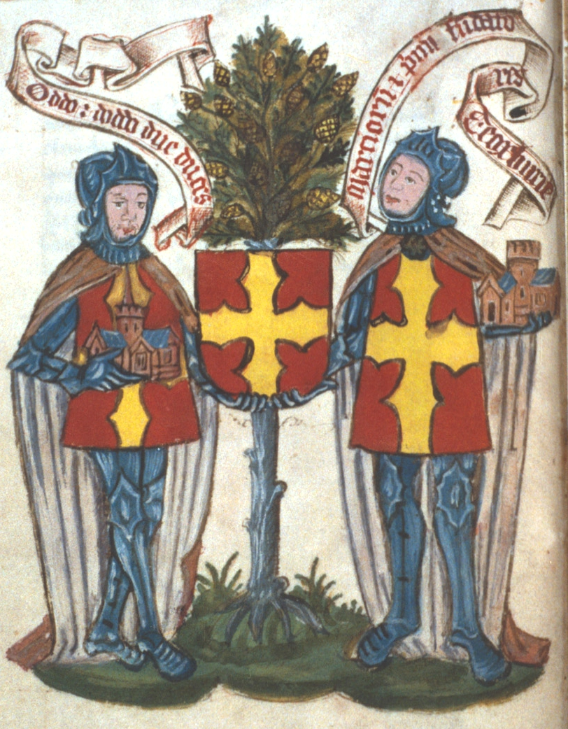 Oddo and Doddo, Dukes of Mercia, Saxon founders of Tewkesbury Abbey, with their attributed arms Gules a cross or. Sir Charles Isham's "Registrum Theokusburiæ" gives an engraving, a copy of this original illustration, of these noble brothers, "par nobile fratrum," as Dr. Hayman calls them, in which they are termed "duo duces Marciorum et primi fundatores Theokusburiæ" i.e., two Earls of the Marches and first founders of Tewkesbury. Each knight is in armour, and bears in his hand a model of a church. Both are supporting a shield (affixed to a pomegranate tree) bearing the arms of the Abbey, which the blazoning on their own coats repeats.(Massé, H. J. L. J., The Abbey Church of Tewkesbury with some Account of the Priory Church of Deerhurst Gloucestershire (Bell's Cathedrals)[1])